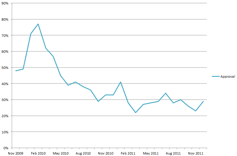 Graph of Jadranka Kosor's approval rating as Prime Minister.